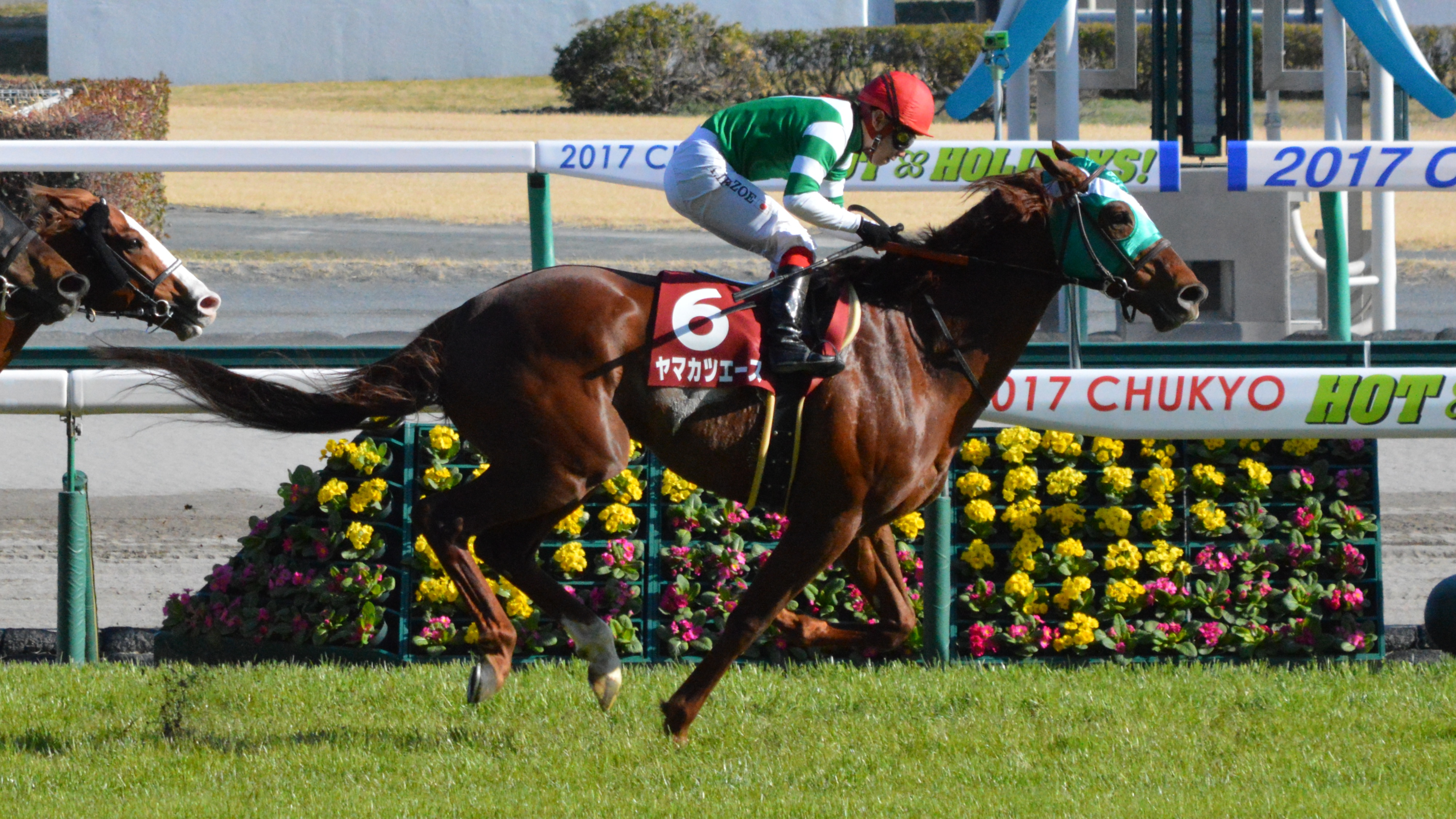 Japanese race horse Yamakatsu Ace at Chukyo racecourse.